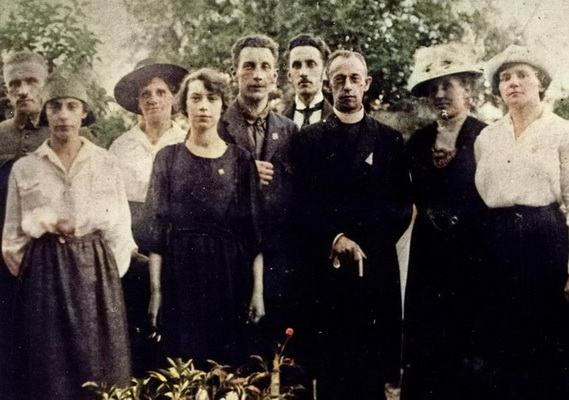 Plast